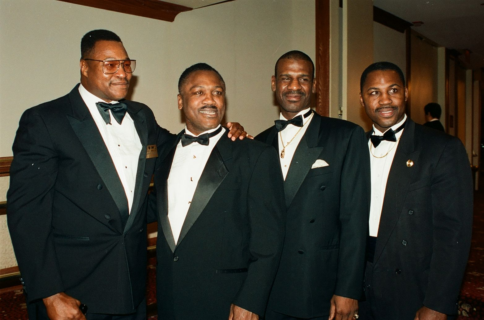 Wash D.C. October 26, 1996